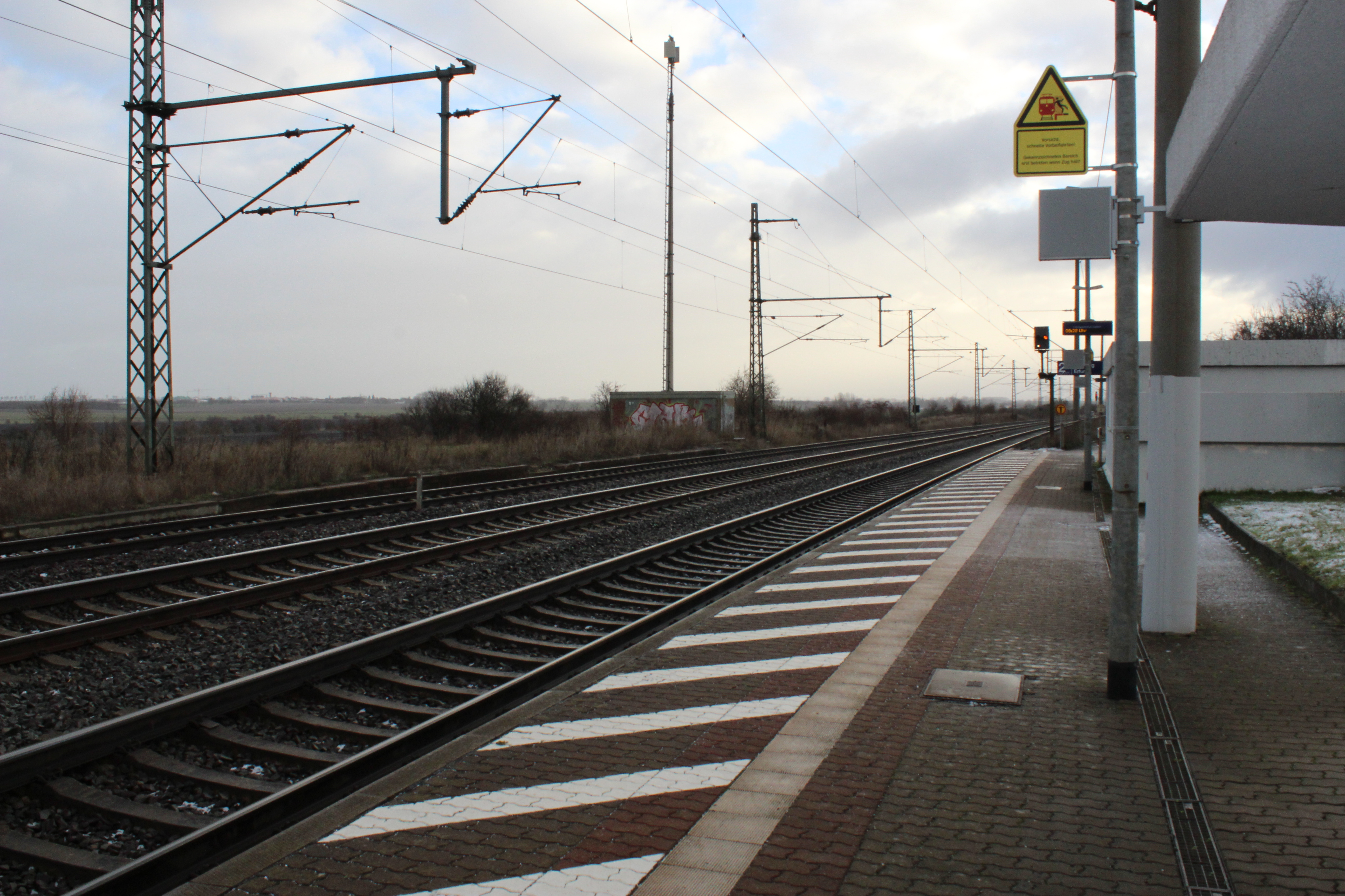 train station Seebergen